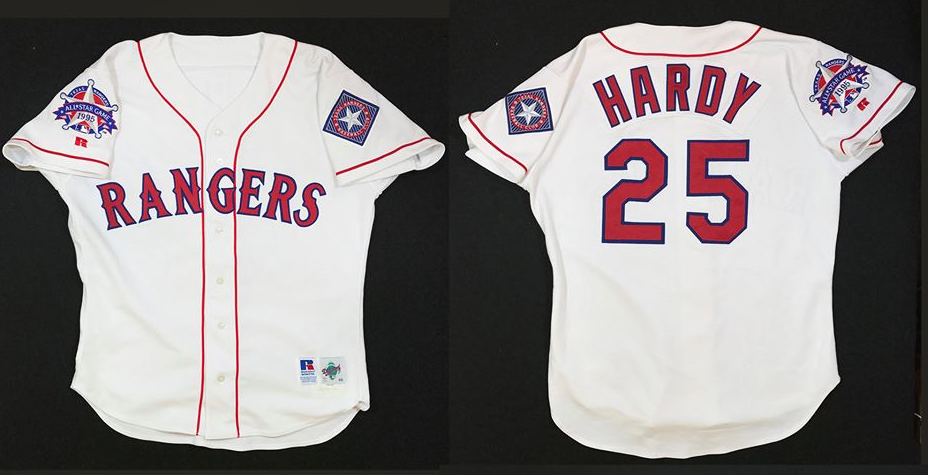 1995 Texas Rangers #25 Larry Hardy game worn home jersey photographed by William F. Henderson who may be contacted through his website at thedream.shop